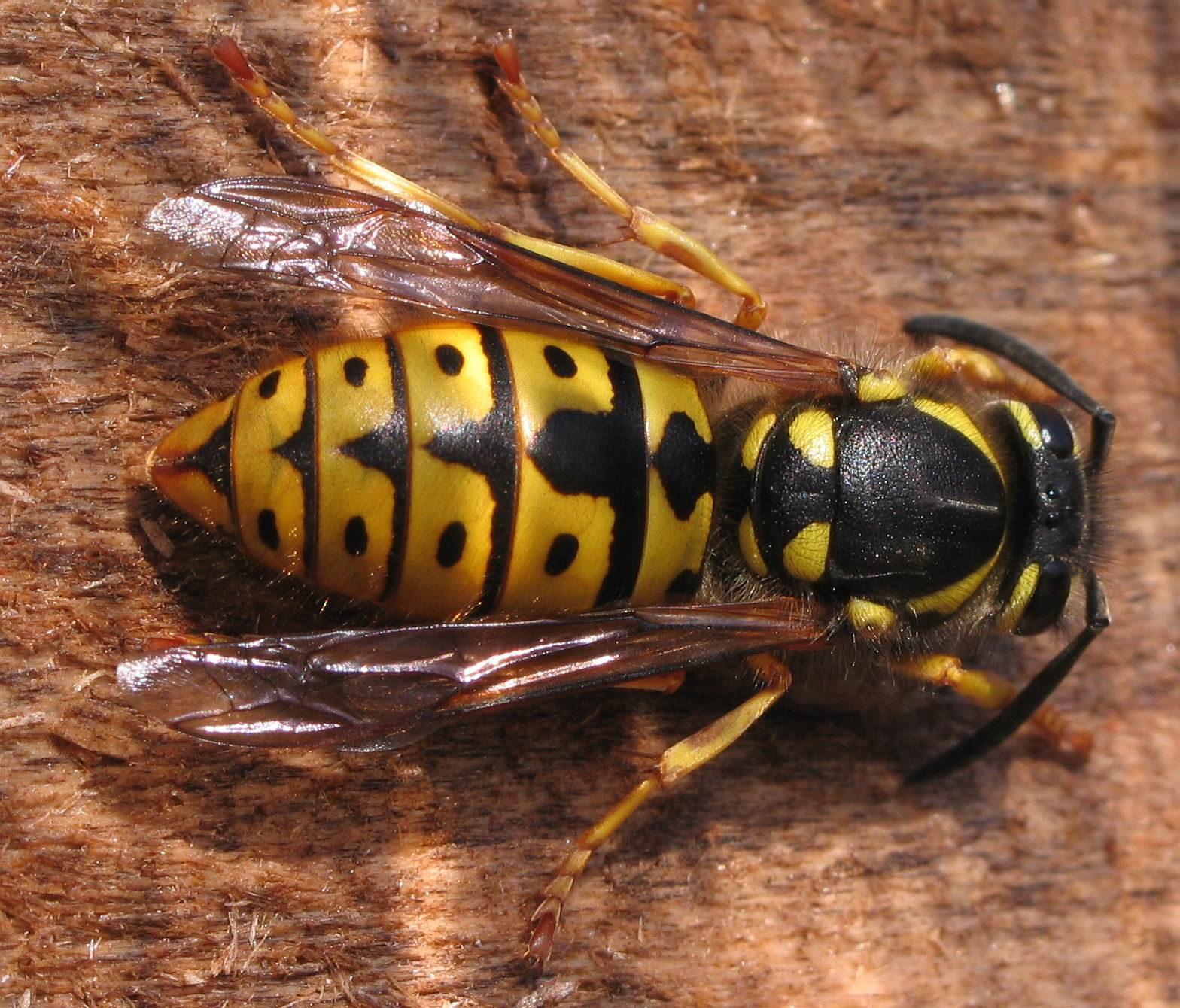 A photo of a wasp queen (Vespula germanica).